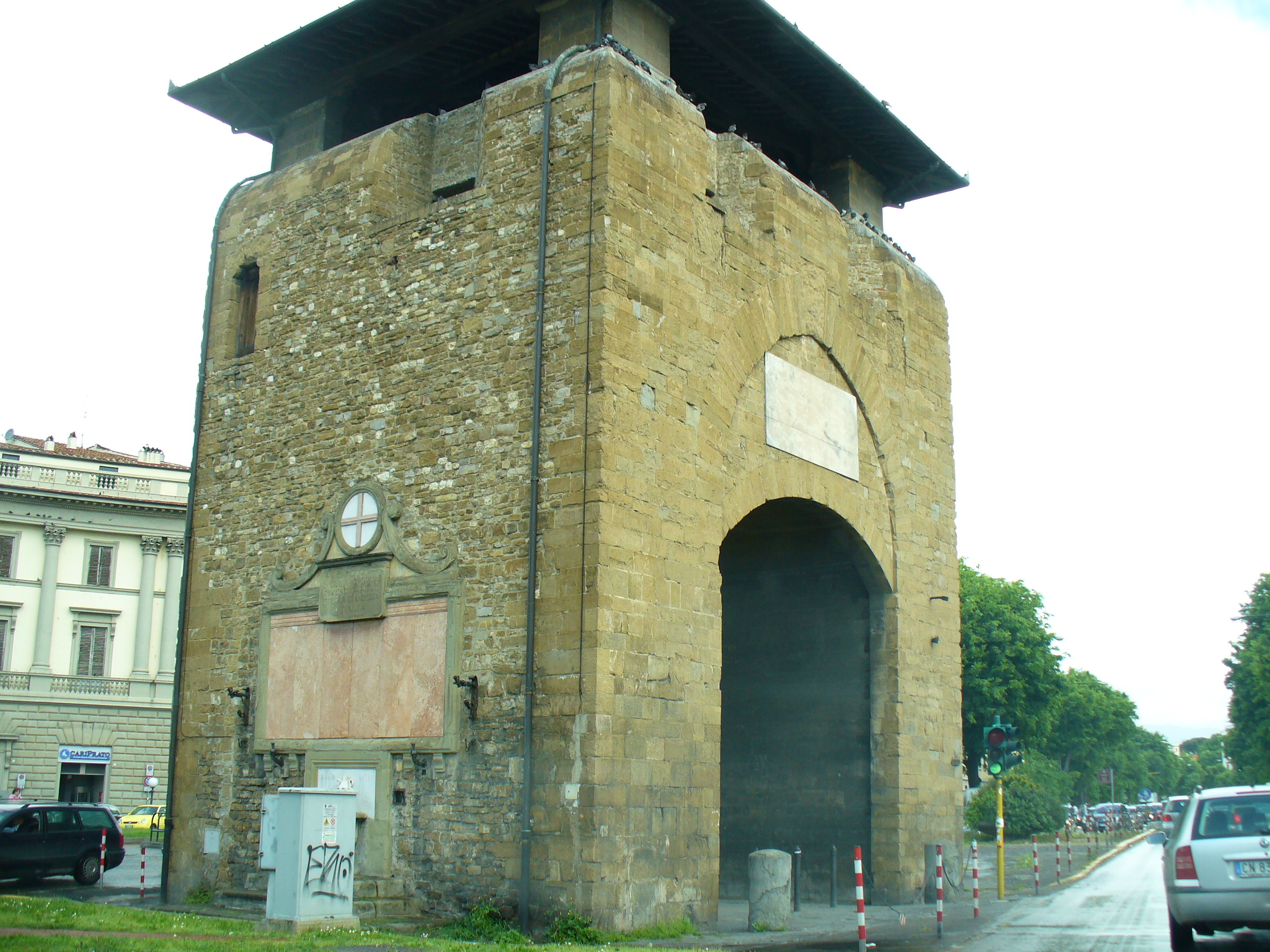 Piazza Beccaria (Florence)